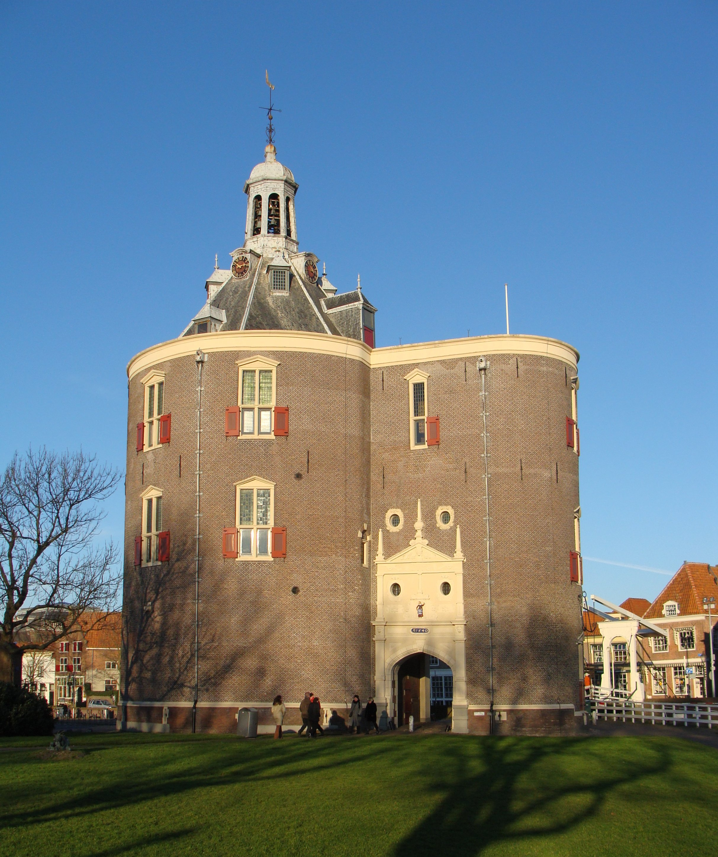 The harbour tower "Drommedaris" of Enkhuizen, seen from the southwest side